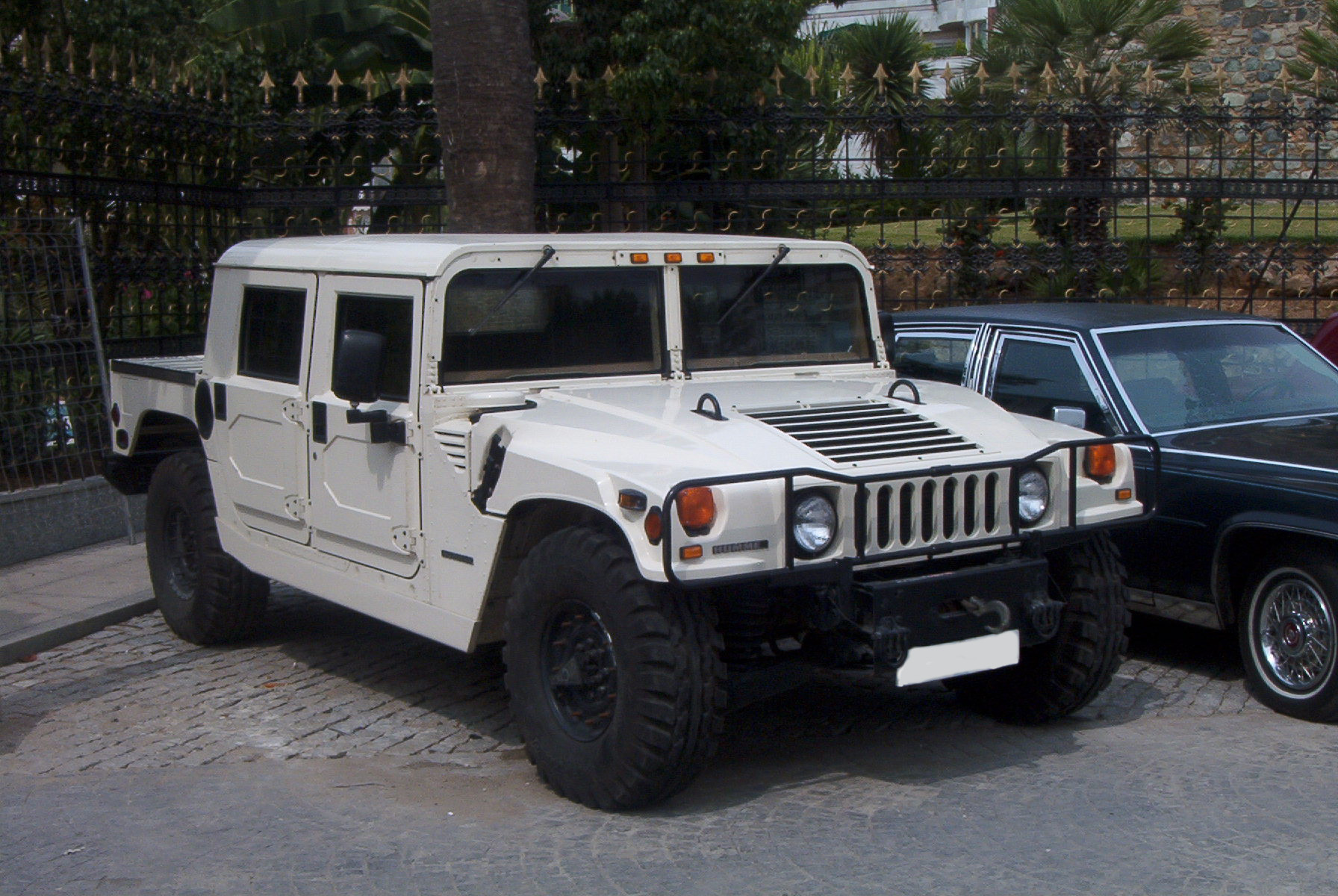 A Hummer H1, seen in Puerto Banús near Marbella, Andalusia, Spain